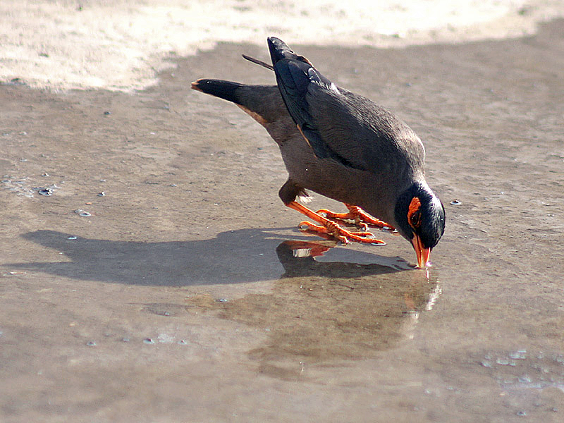 Bank Myna Acridotheres ginginianus at Hodal in Faridabad District of Haryana, India.